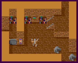 A room built in Adventure Construction Set on an Amiga using a fully custom tile set.